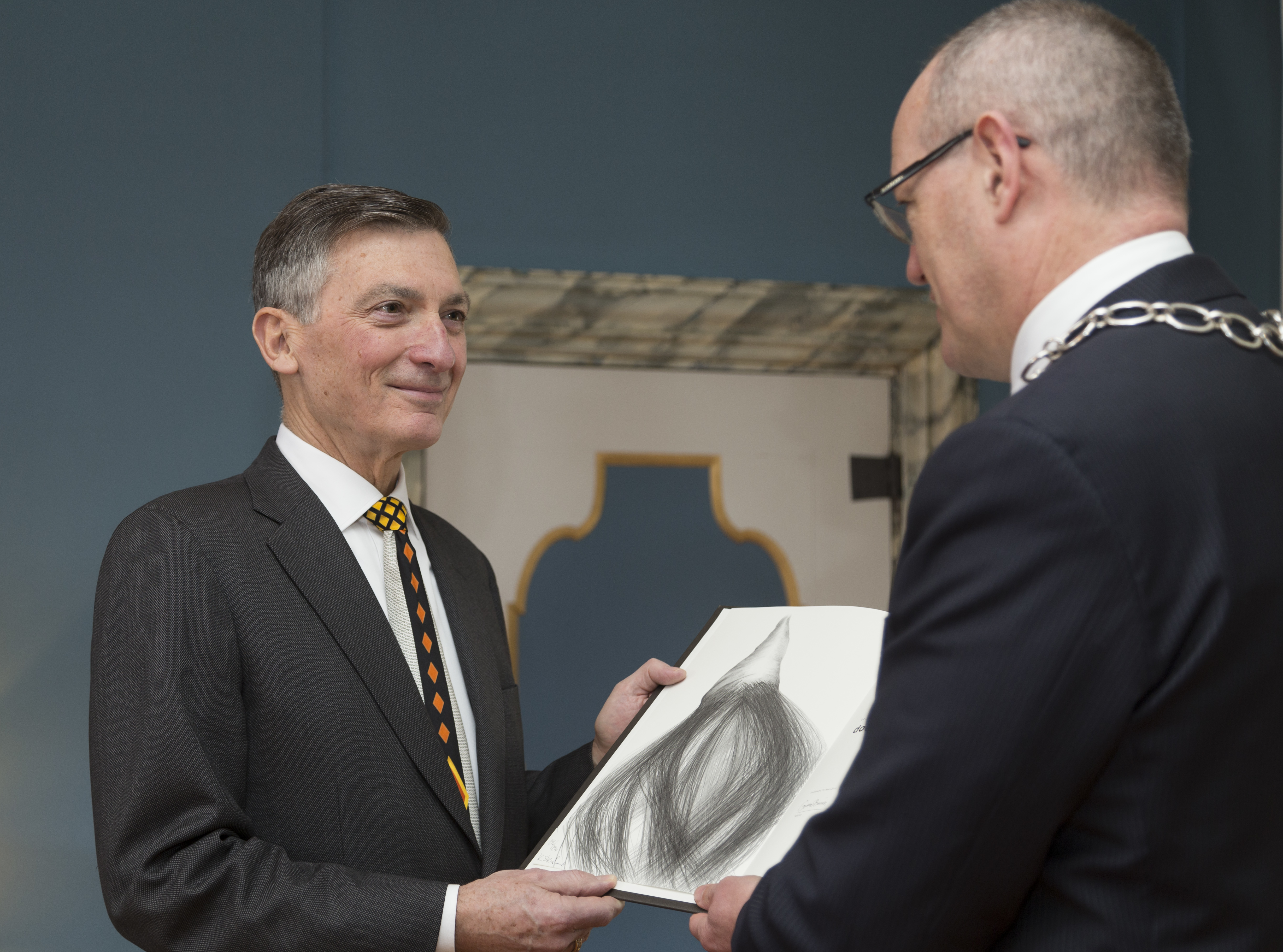 Professor Donald Sadoway receiving his diploma as an honorary doctor of the Norwegian University of Science and Technology (NTNU) in Trondheim, Norway. NTNU's rector Gunnar Bovim to the right.